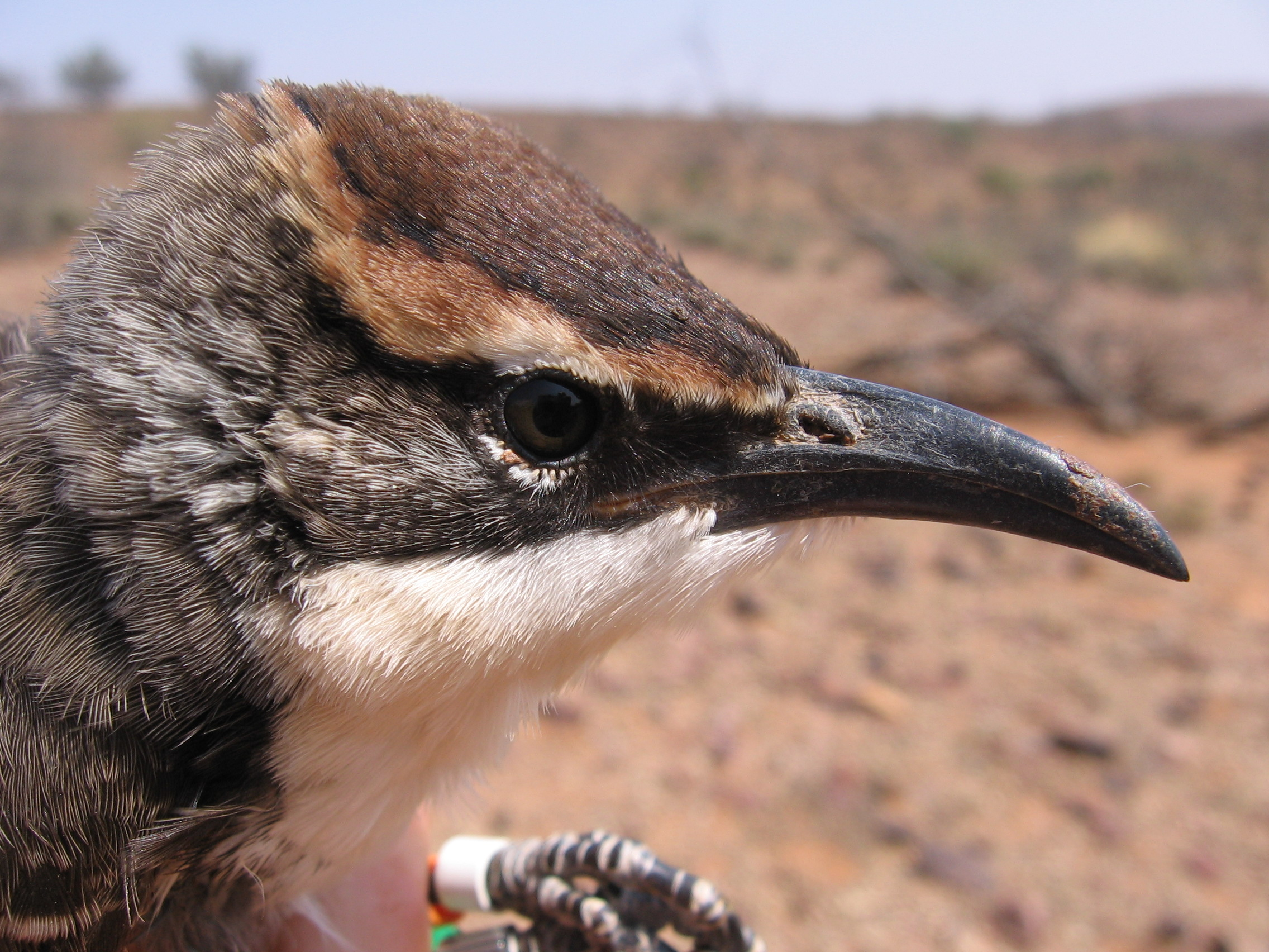 Side view of Chestnut-crowned Babbler Pomatostomus ruficeps head